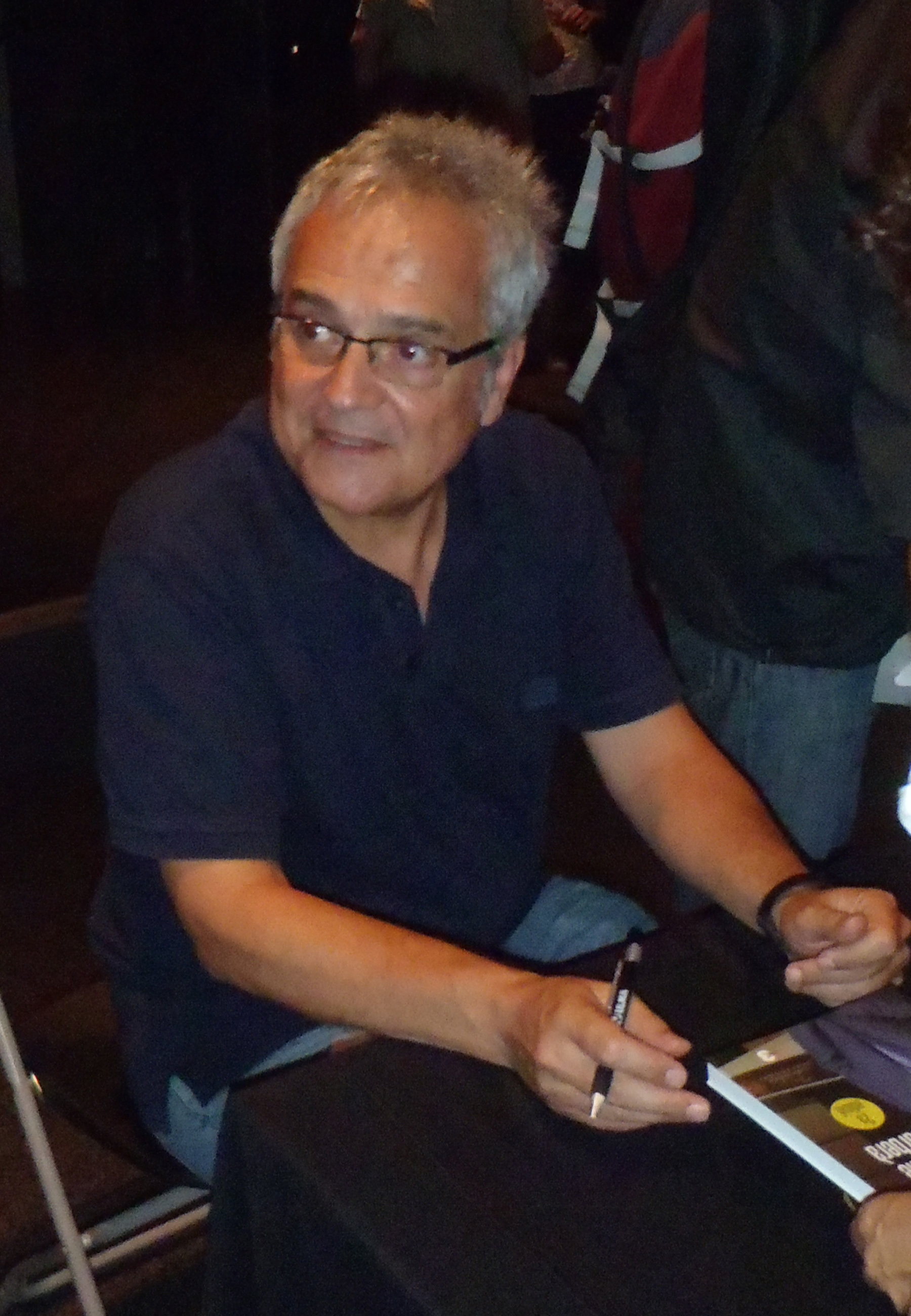 Jaume Barberà signing one of his books in the 2012 Catalan Book Week in Barcelona.